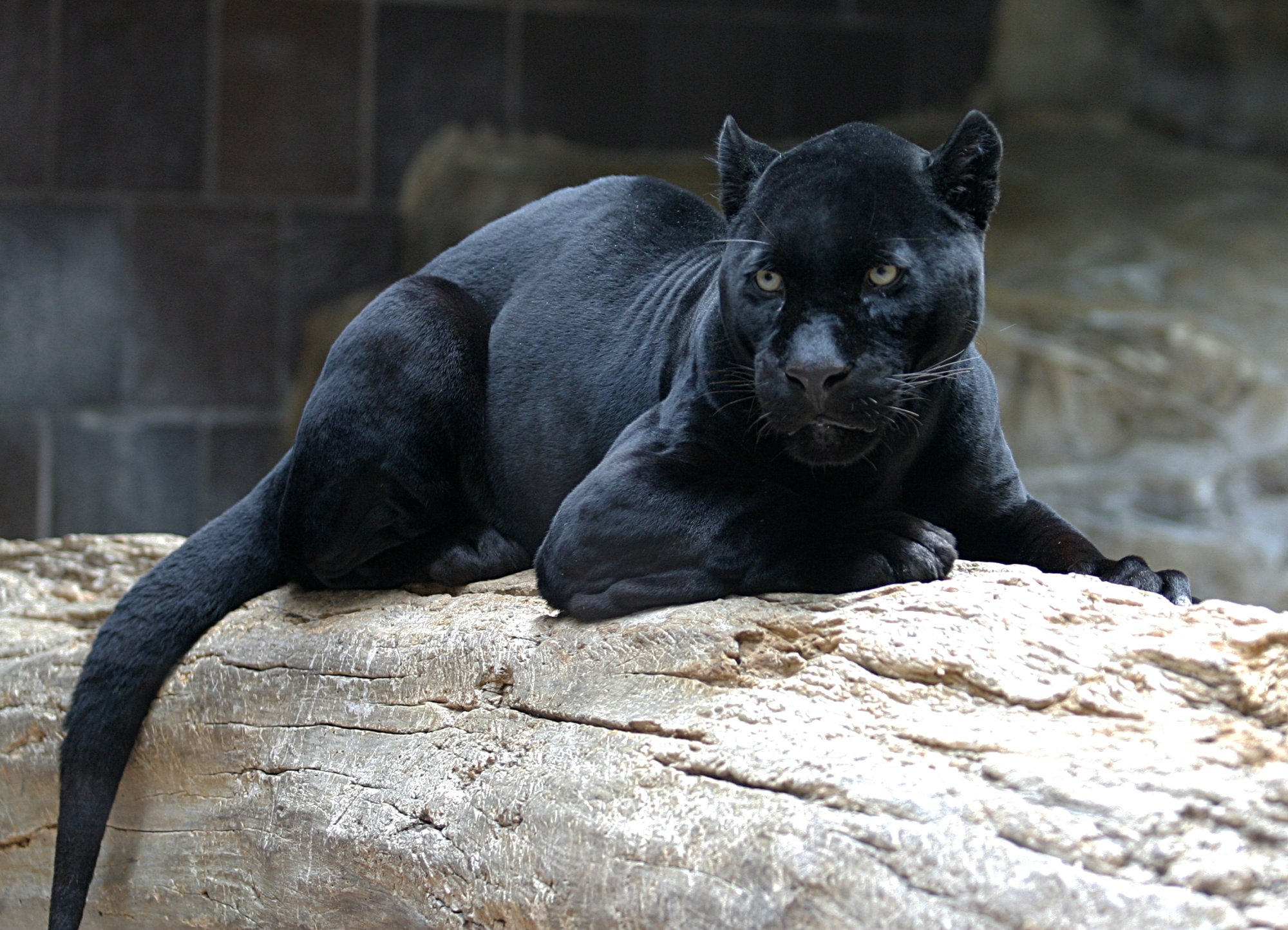 Jaguar at the Henry Doorly Zoo in Omaha, Nebraska.